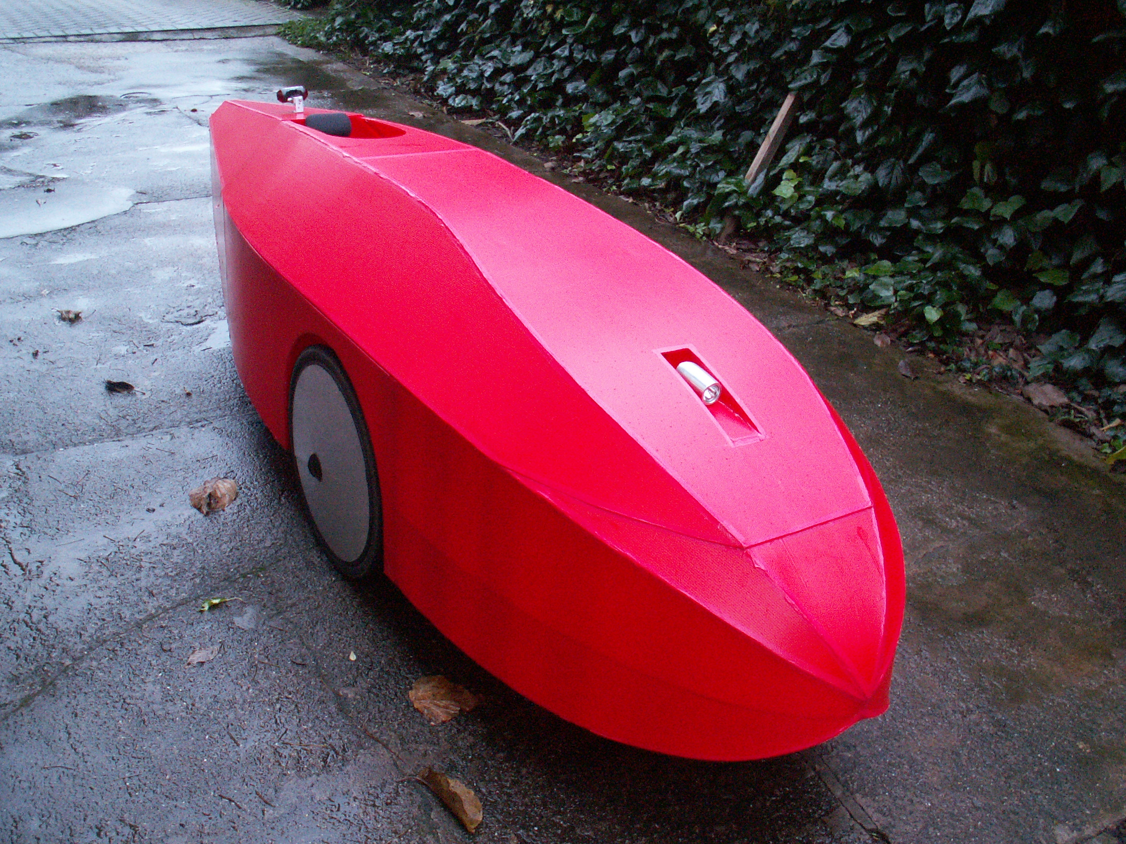 A homebuilt Velomobile built from coroplast using a Trice S trike as a base.